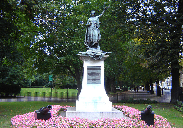 Boer War Memorial, Highbury Fields, Highbury, Islington, London. 3 October 2005. Photographer: Fin Fahey.